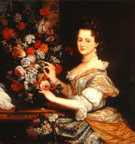 Anne Marie Franziska of Saxe-Lauenburg, granduchess of Tuscany.